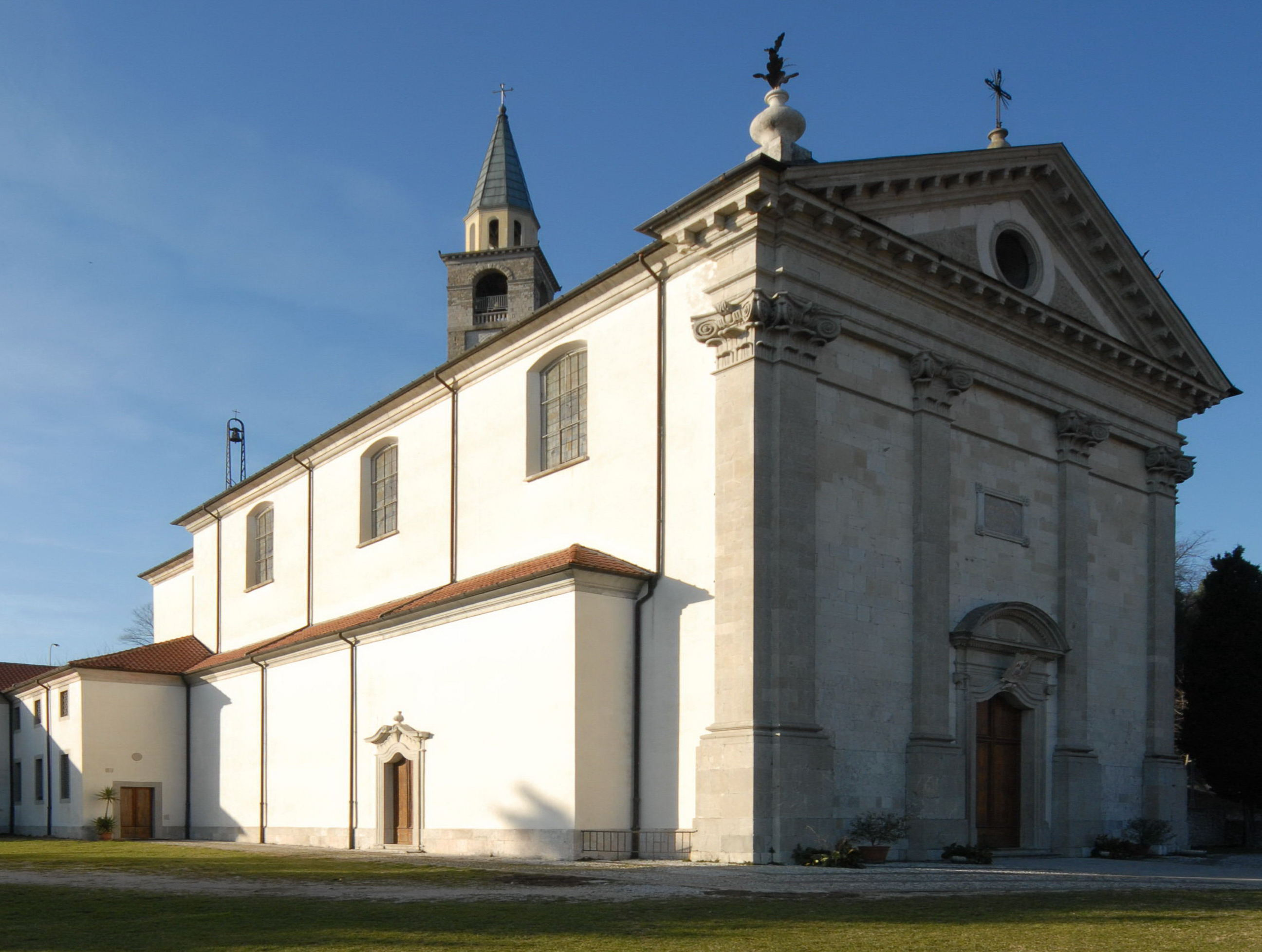 Church of the Nativity of the Virgin Mary, Via delle Chiese, municipality Artegna, province Udine, Friuli, Italy